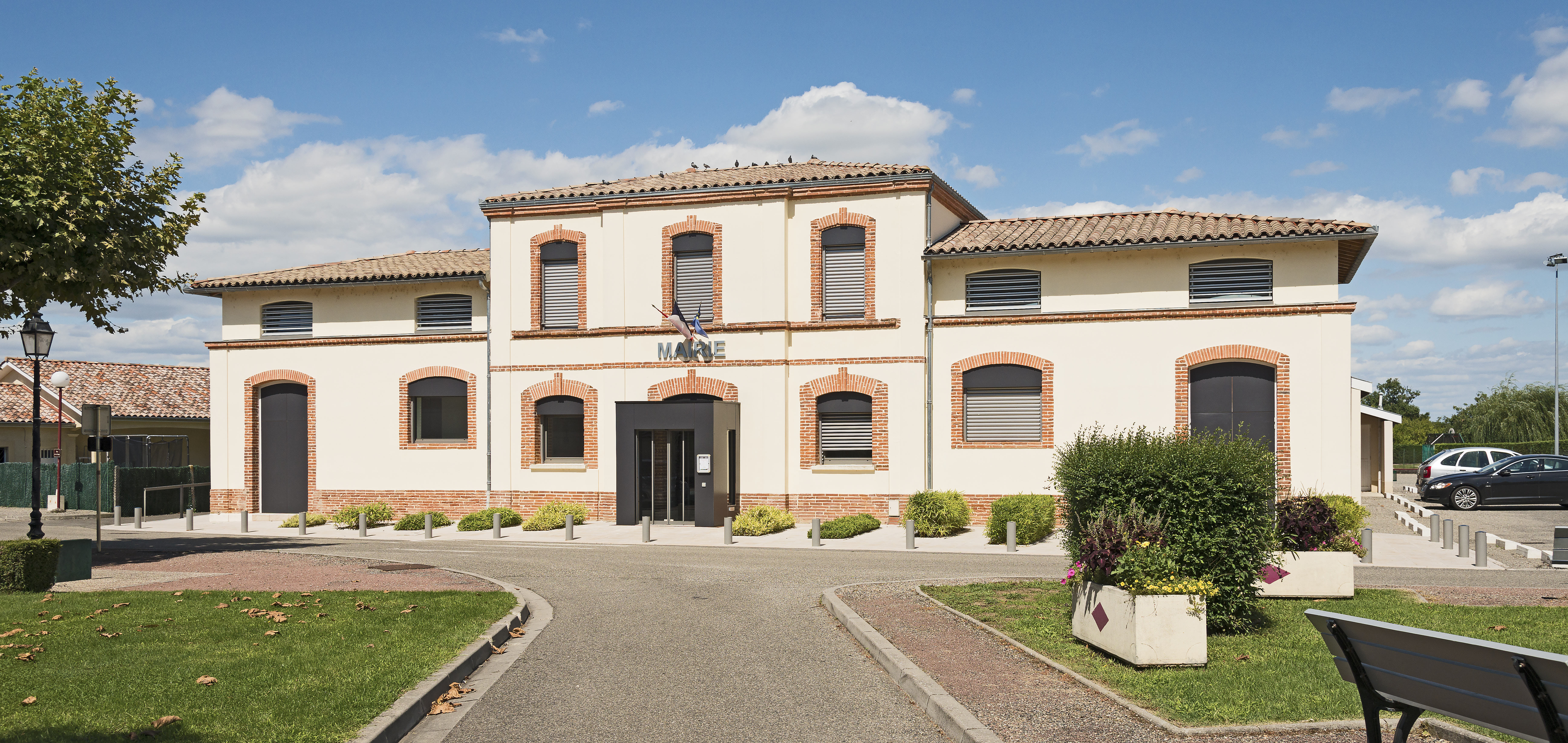 Montbartier, Tarn-et-Garonne, France - Facade of town hall